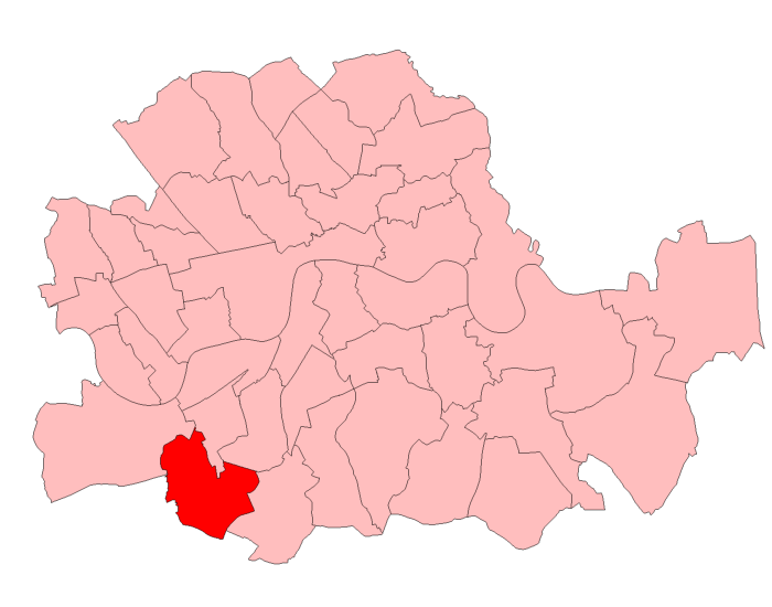 A map of Wandsworth Central constituency within the London County Council area, as it existed from 1950 to 1974.